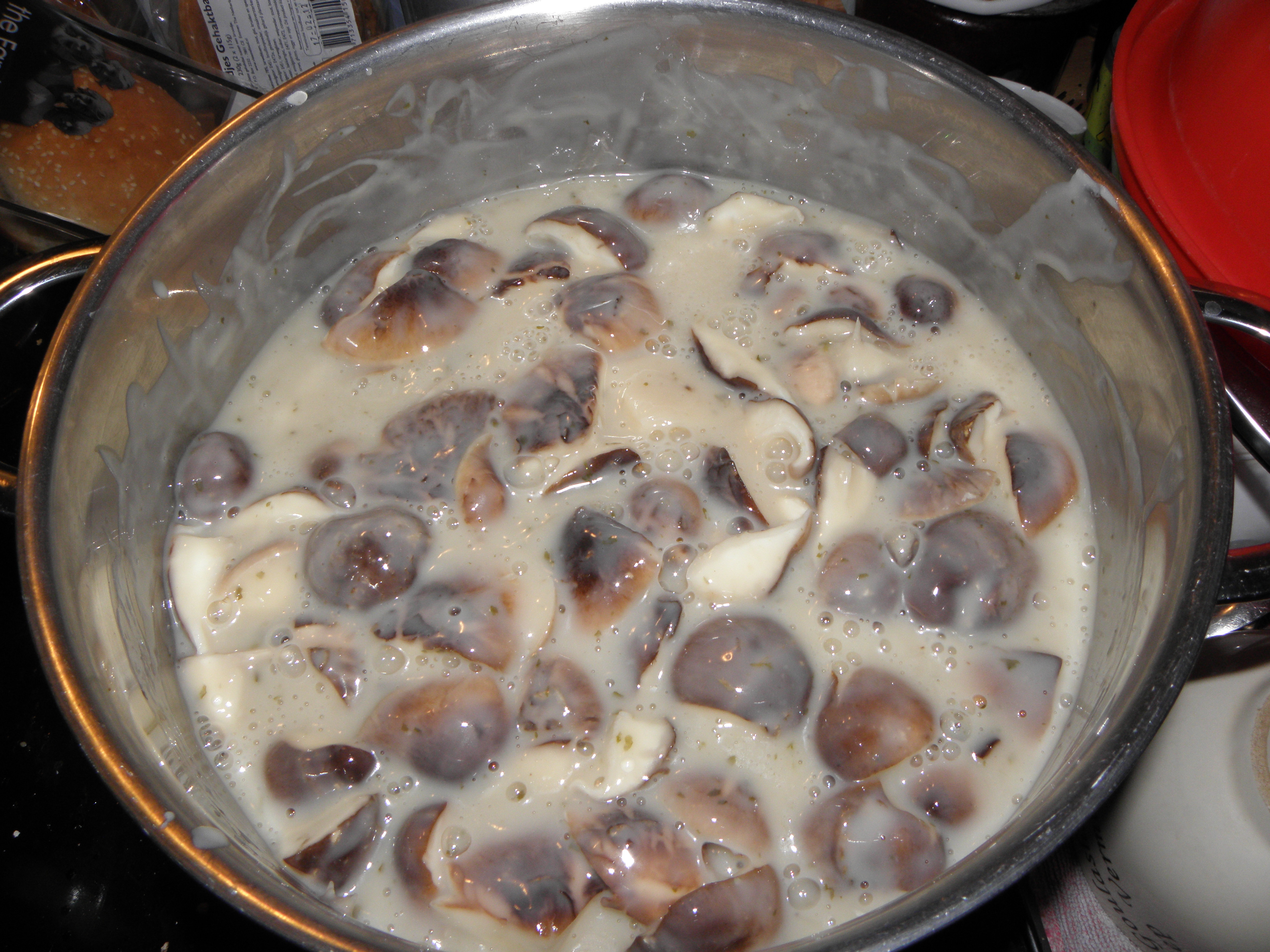 shiitake